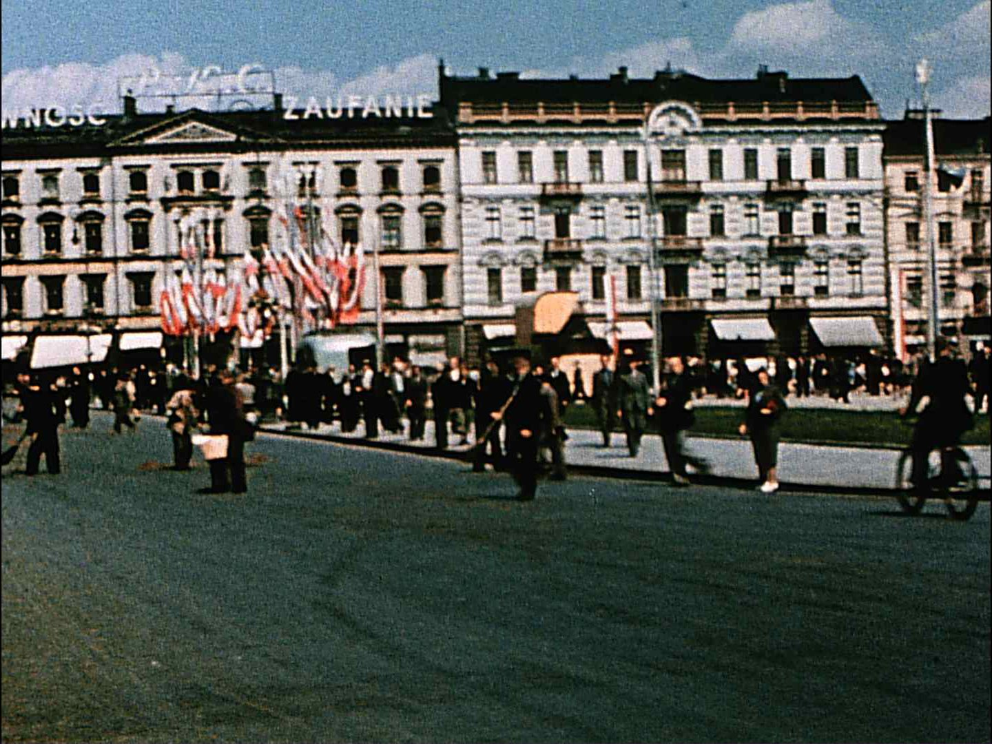 Warsaw in Poland, Piłsudski Square, Ossolińskich 8 Street in 1939 before the Second World War. Still from 16mm Eastman Kodak color movie. Visible Polish flags.